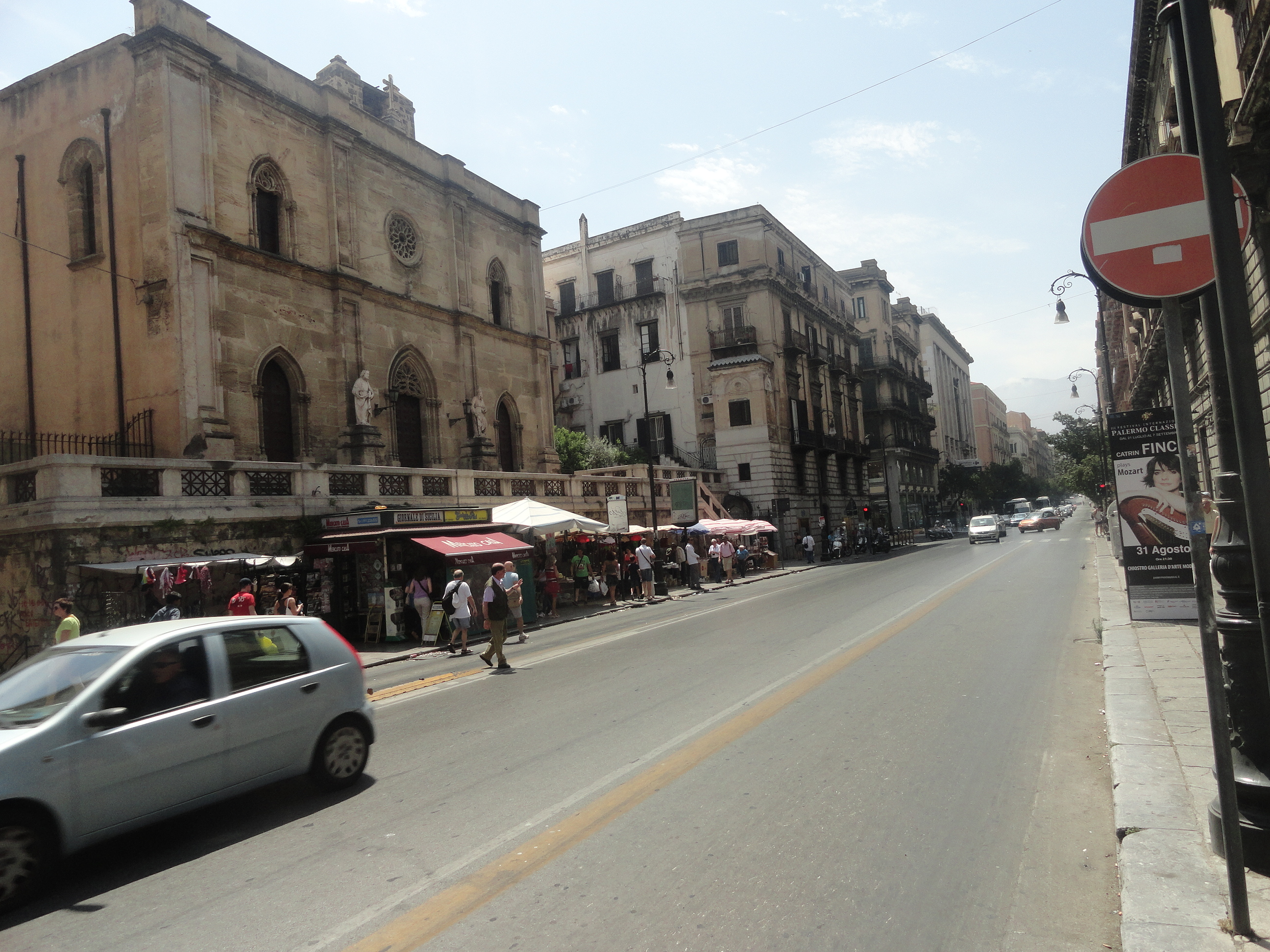 Street view ov Via Roma in Palermo, Sicily, Italy. It is one of the oldest and main boulevards in the city. You can visit our amazing travel blog at